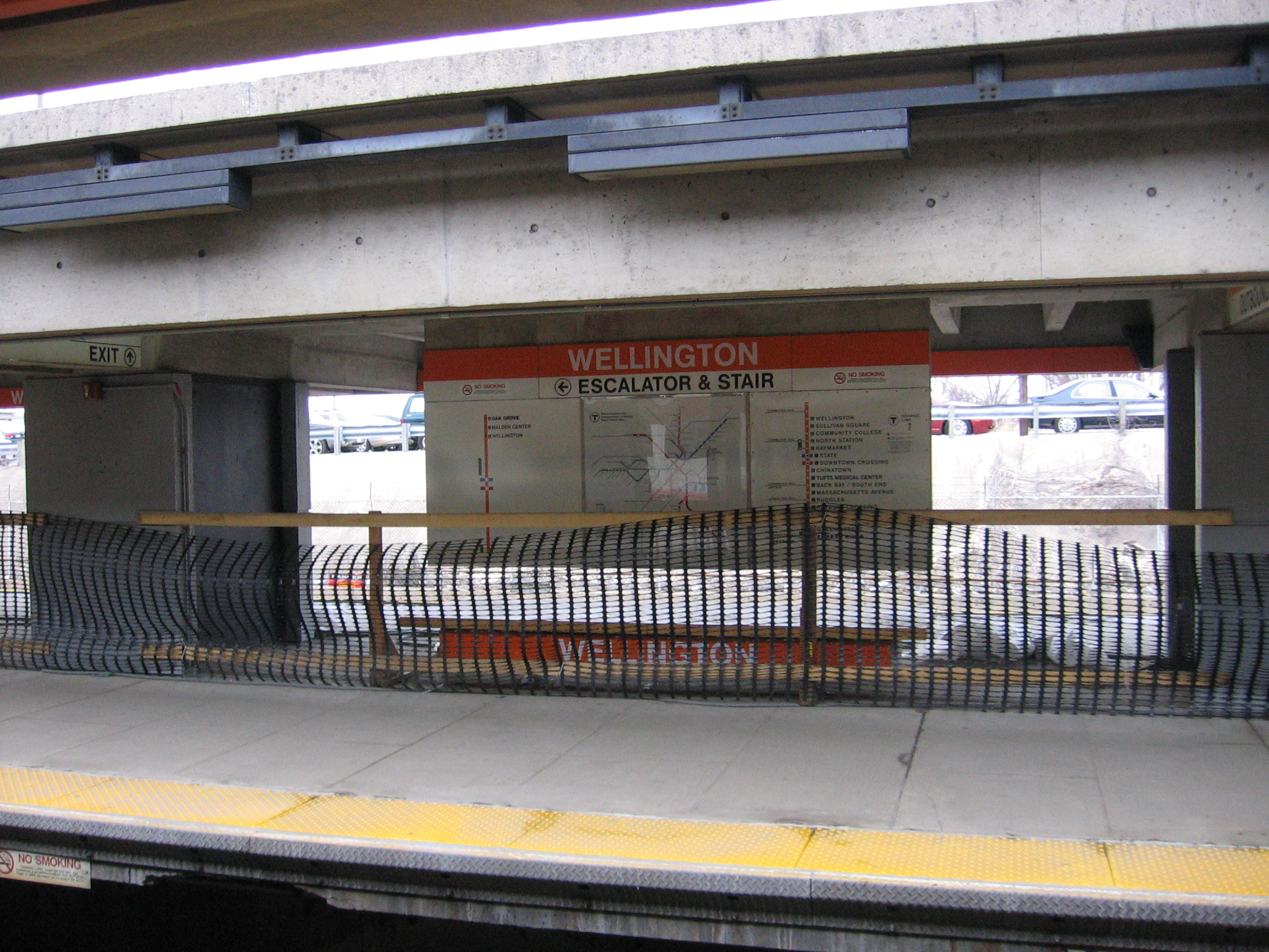 A station sign and route map at Wellington station on the MBTA Orange Line; the mostly unused outbound-only platform was being repaired.